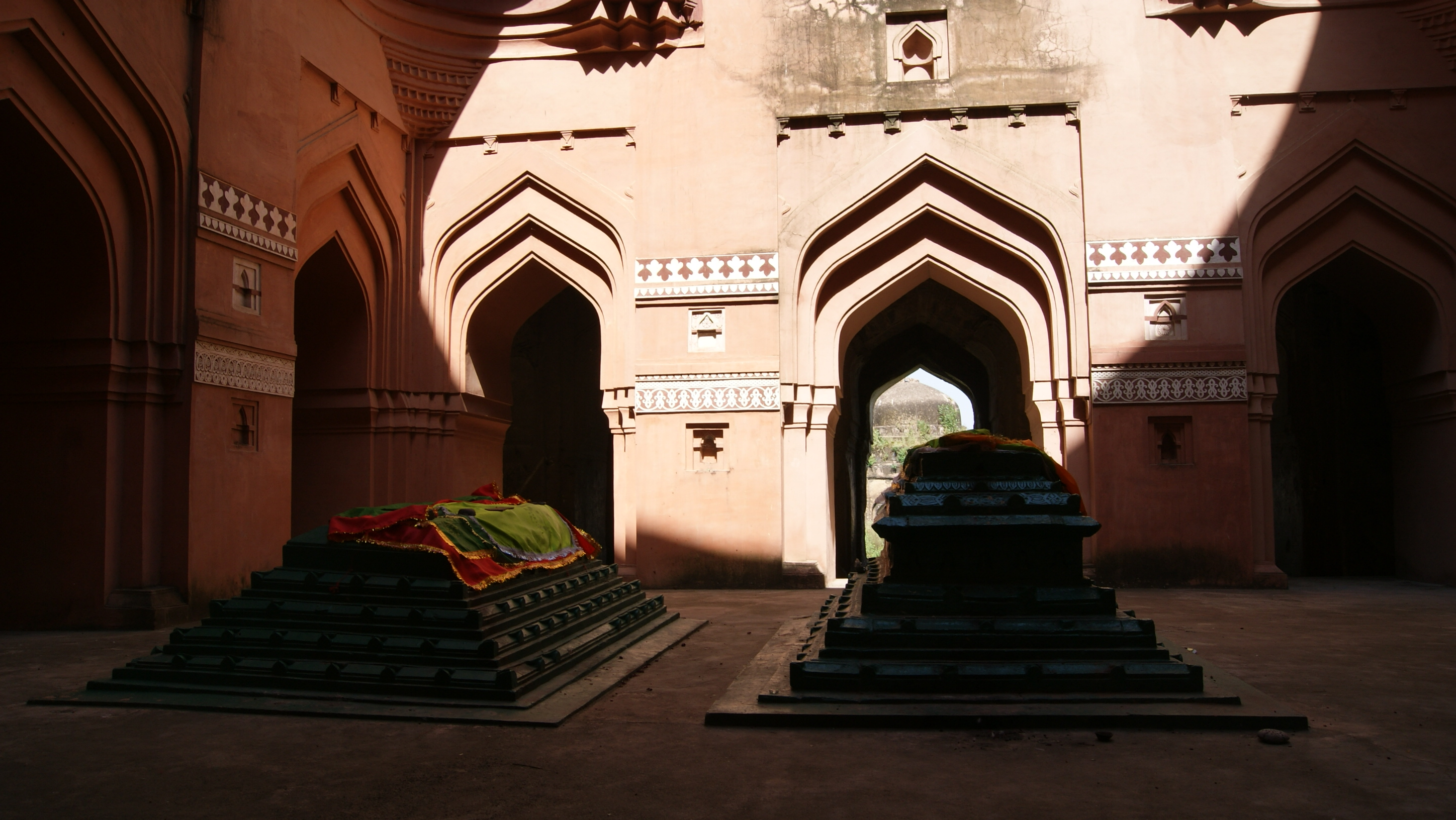 Kalpi is an ancient Indian city. Chaurasi Gumbad is one of the precious gems there.